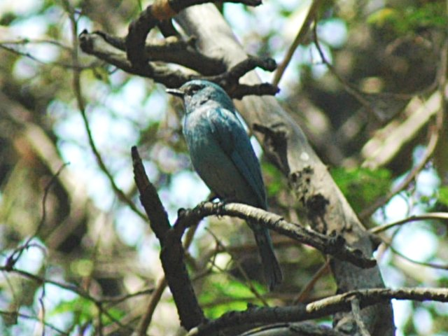 Pale Blue Flycatcher at Jubilee Park, IISc Bangalore.